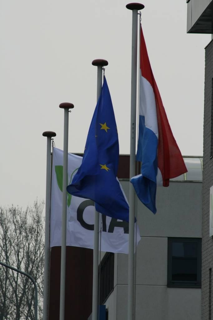 EU and CTA flags flattering in the wind in front of the CTA building in Wageningen, Netherlands